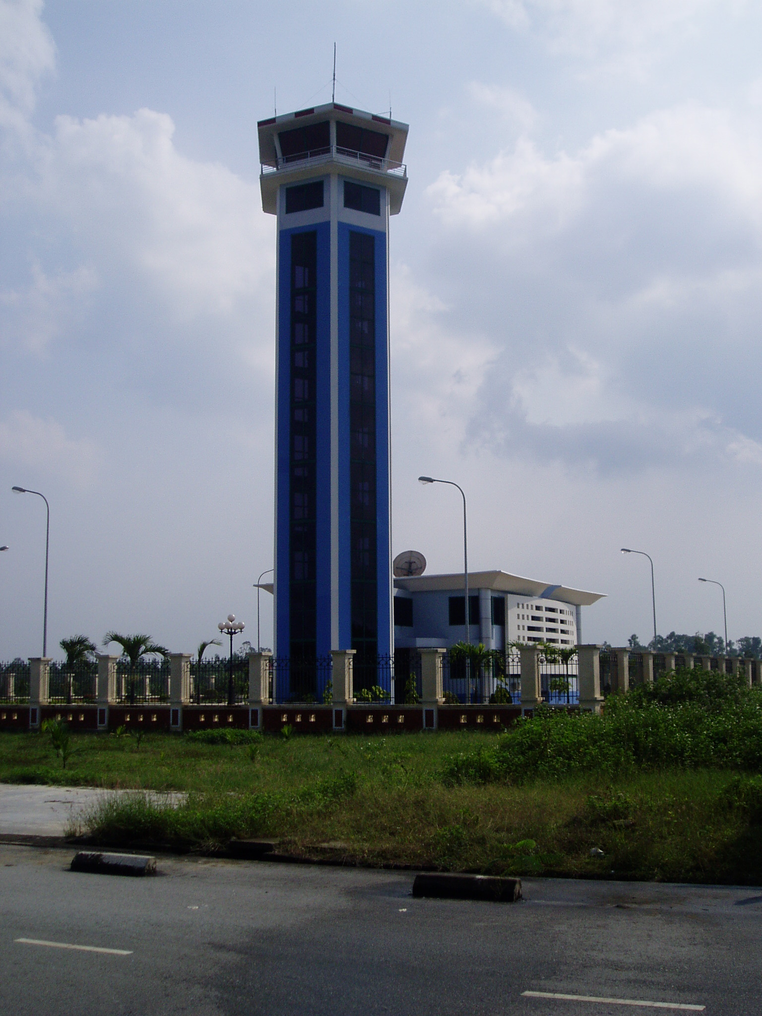 Phu Bai ATC tower taken December 2006.